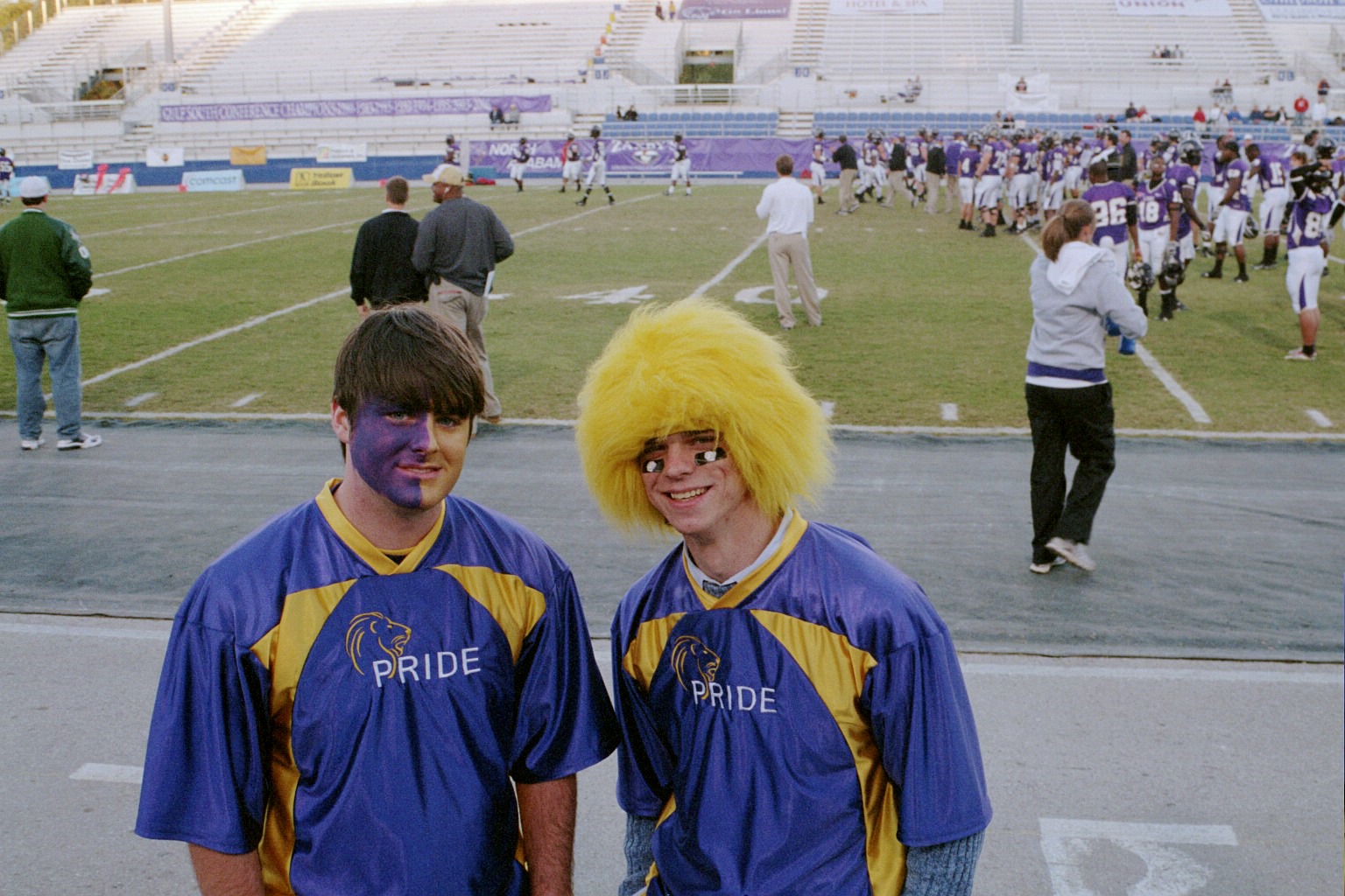 Taken by me, Nov. 2007, University of North Alabama football game.